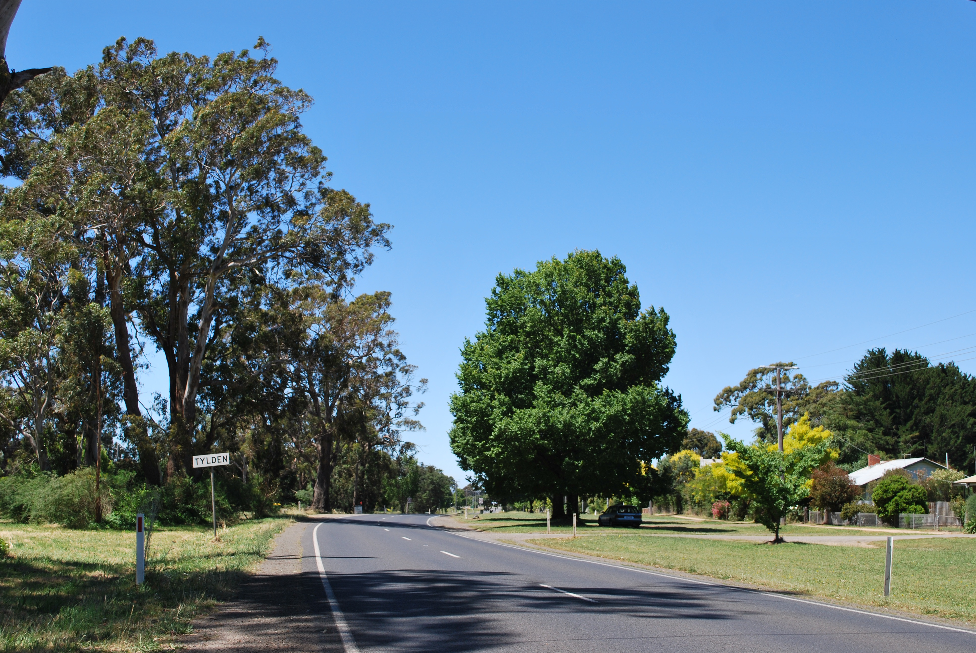 Entering Tylden, Victoria